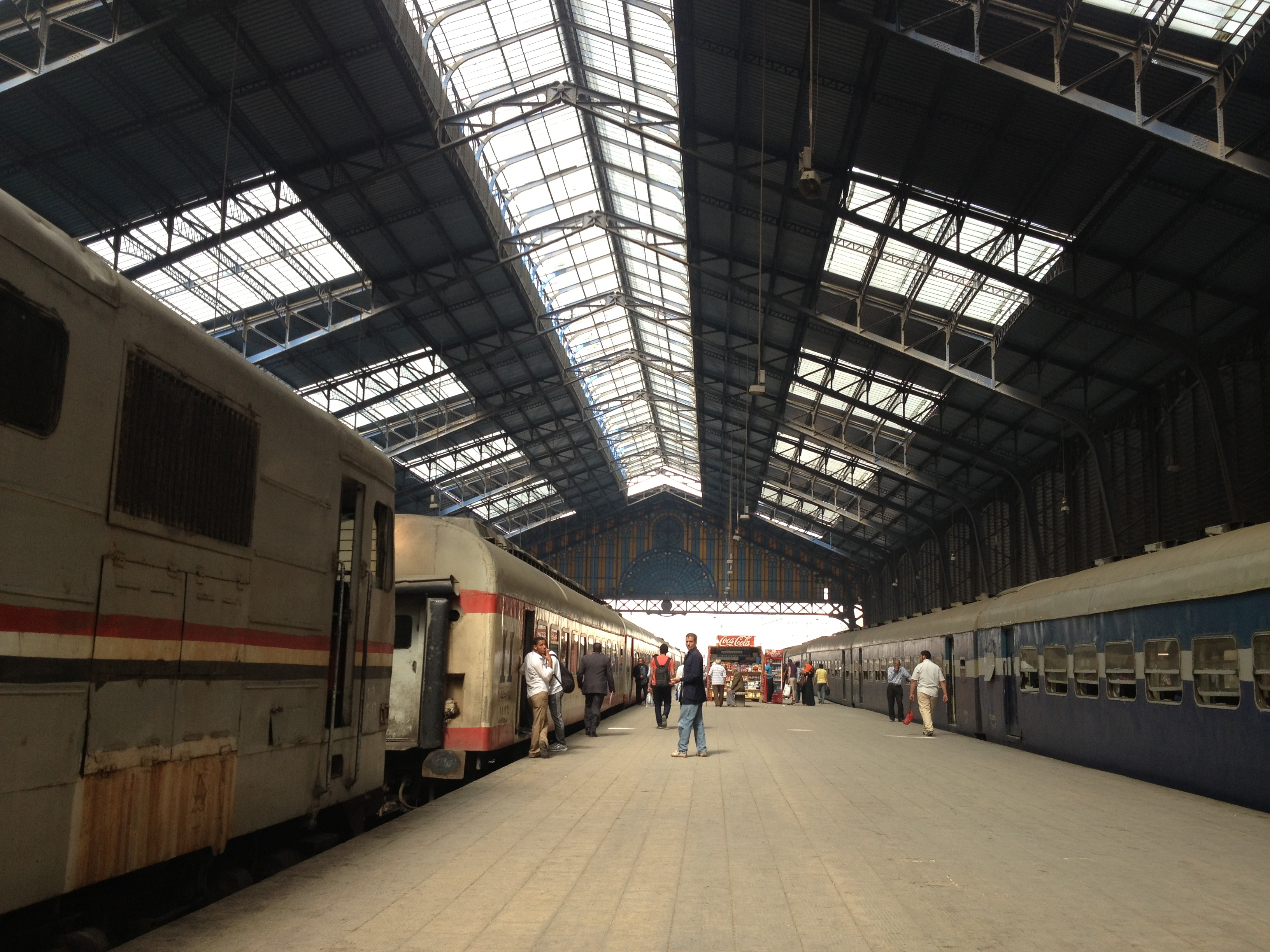 Inside of Misr Station in Alexandria, Egypt. The train to the left is the 15:00 train to Ramses Station, Cairo.